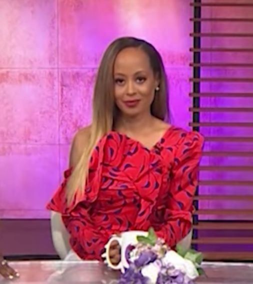 Actress Essence Atkins On Kindness, Motherhood and Her New Show, Ambitions